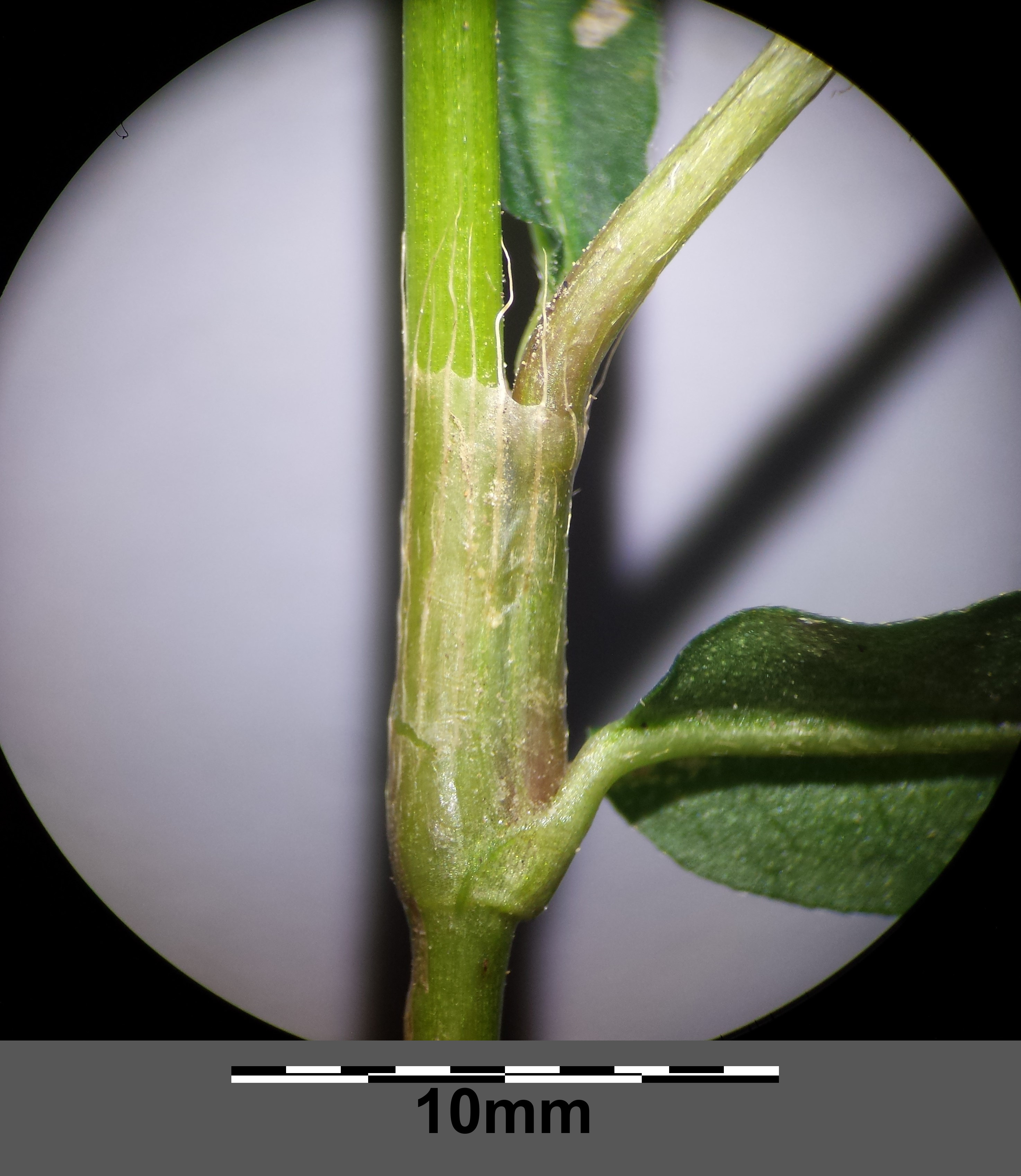 Stem with ochrea Taxonym: Persicaria minor ss Fischer et al. EfÖLS 2008 ISBN 978-3-85474-187-9 Location: Glasweiner Wald west of Herzogbirbaum, district Korneuburg, Lower Austria - ca. 325 m a.s.l. Habitat: forest track